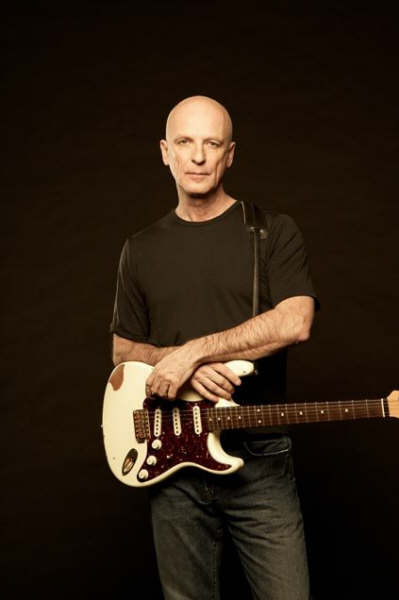 Canadian musician Kim Mitchell